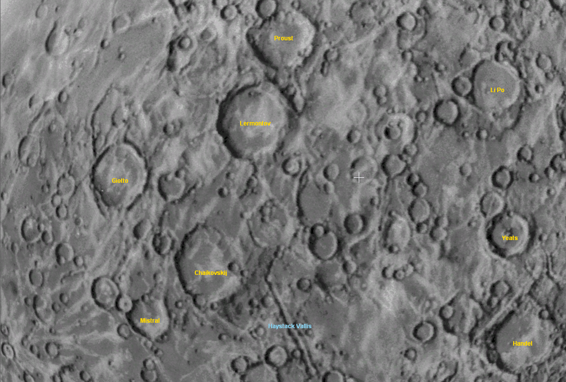 Lermontov crater on the planet Mercury, from Mariner 10 data